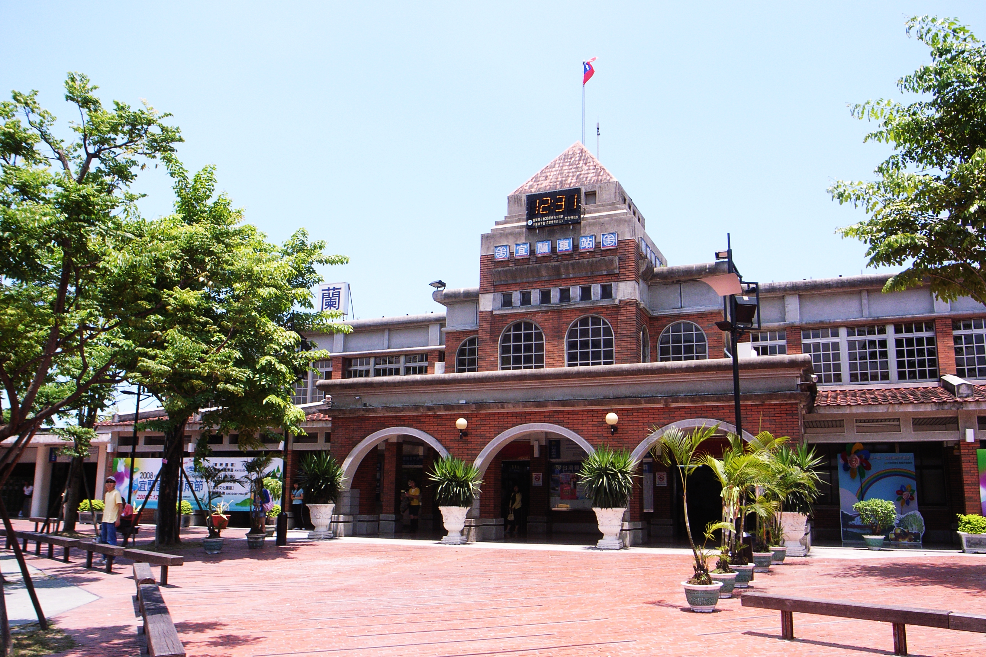 臺灣鐵路管理局宜蘭車站 Taiwan Railway Administration Yilan Station